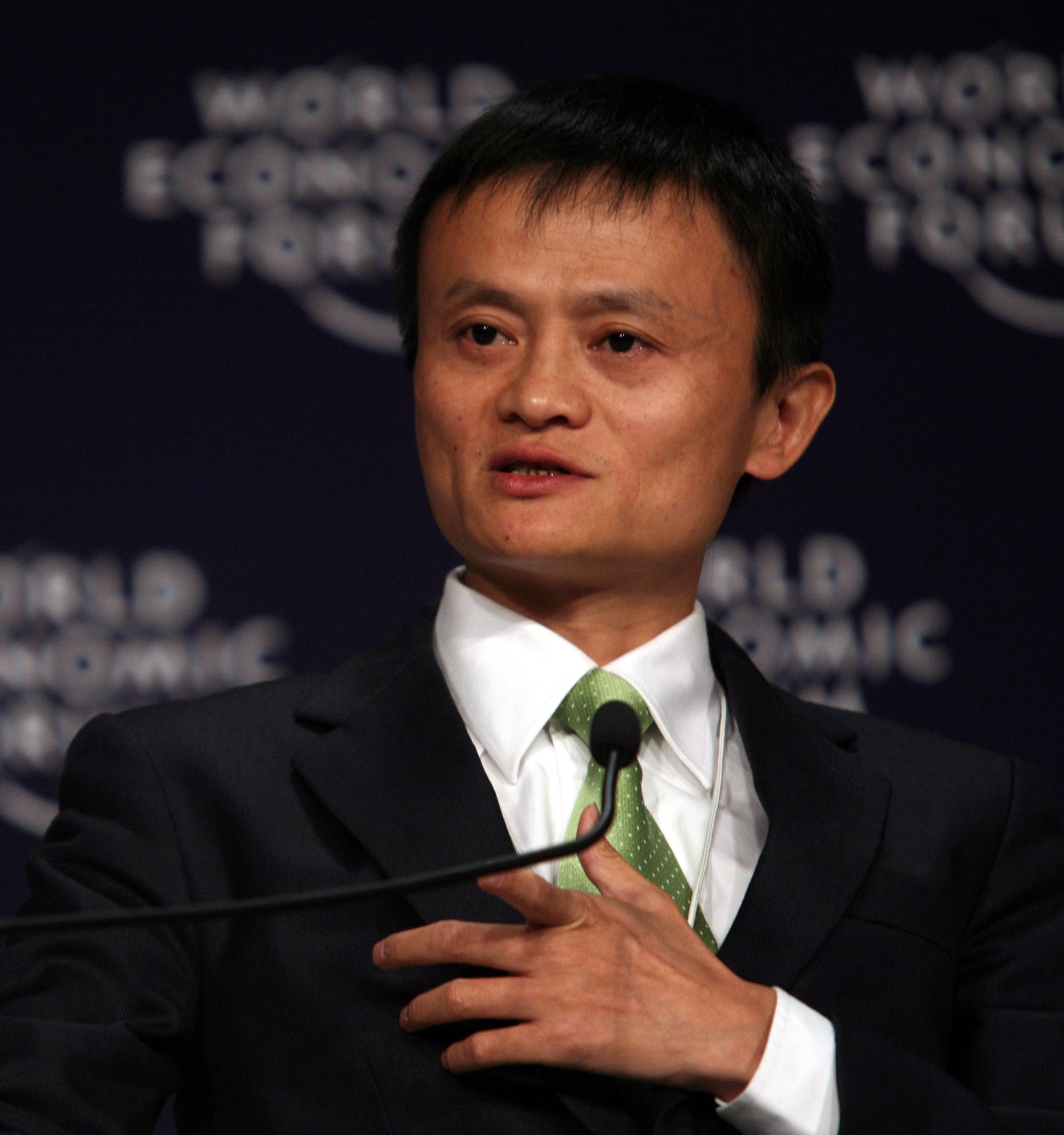 Jack Ma speaks during The Future of the Global Economy: The View from China plenary session at the World Economic Forum Annual Meeting of the New Champions in Tianjin, China 28 September 2008.